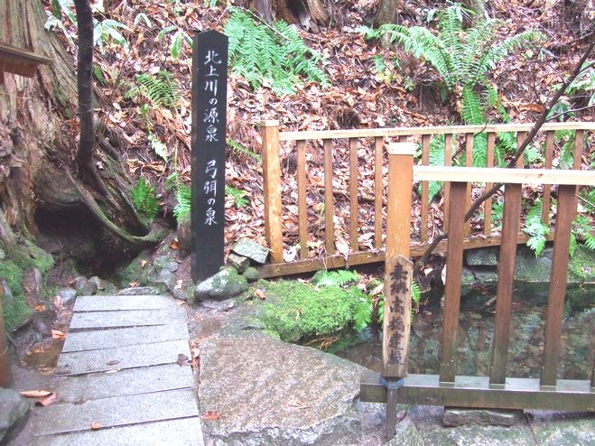 terawateer